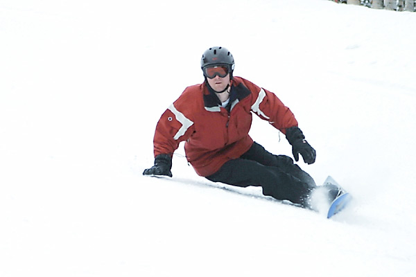 Alpine snowboarder